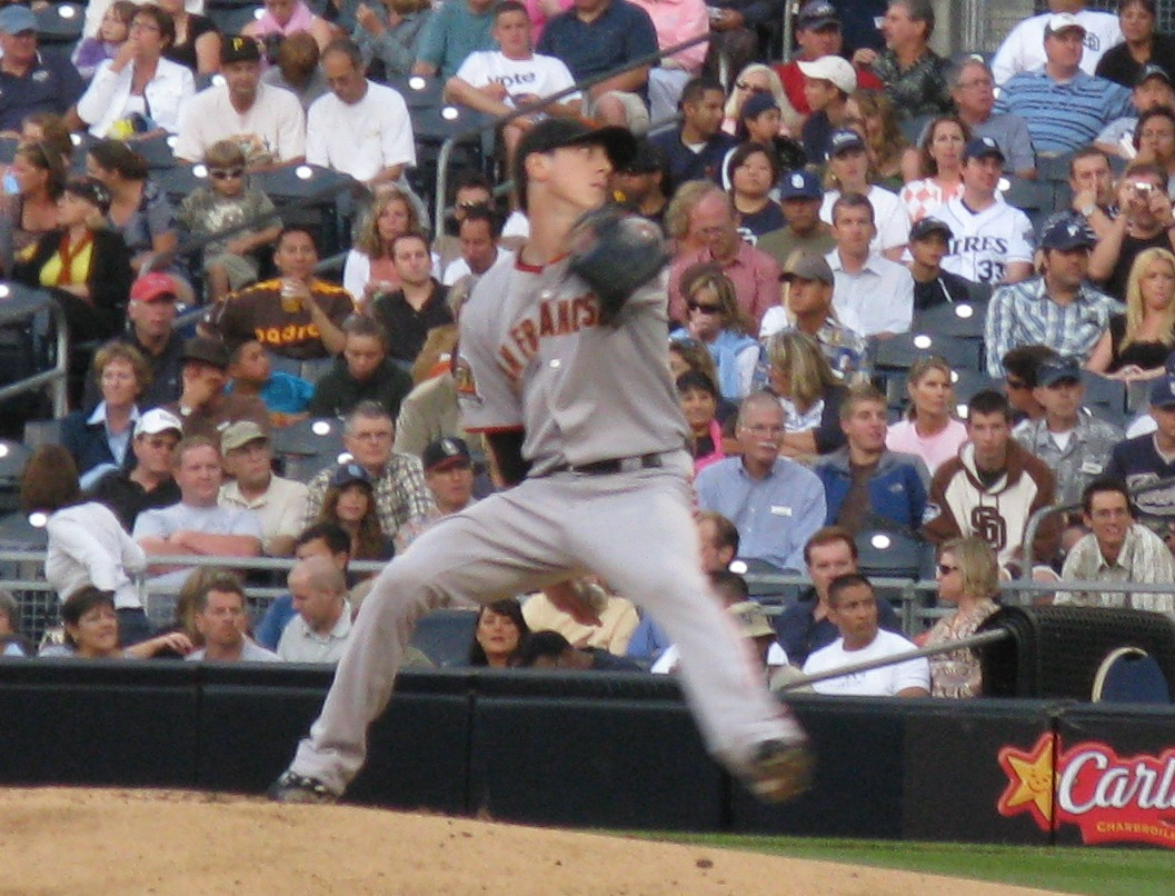 San Francisco Giants pitcher Tim Lincecum pitches against the San Diego Padres at Petco Park in San Diego, California.